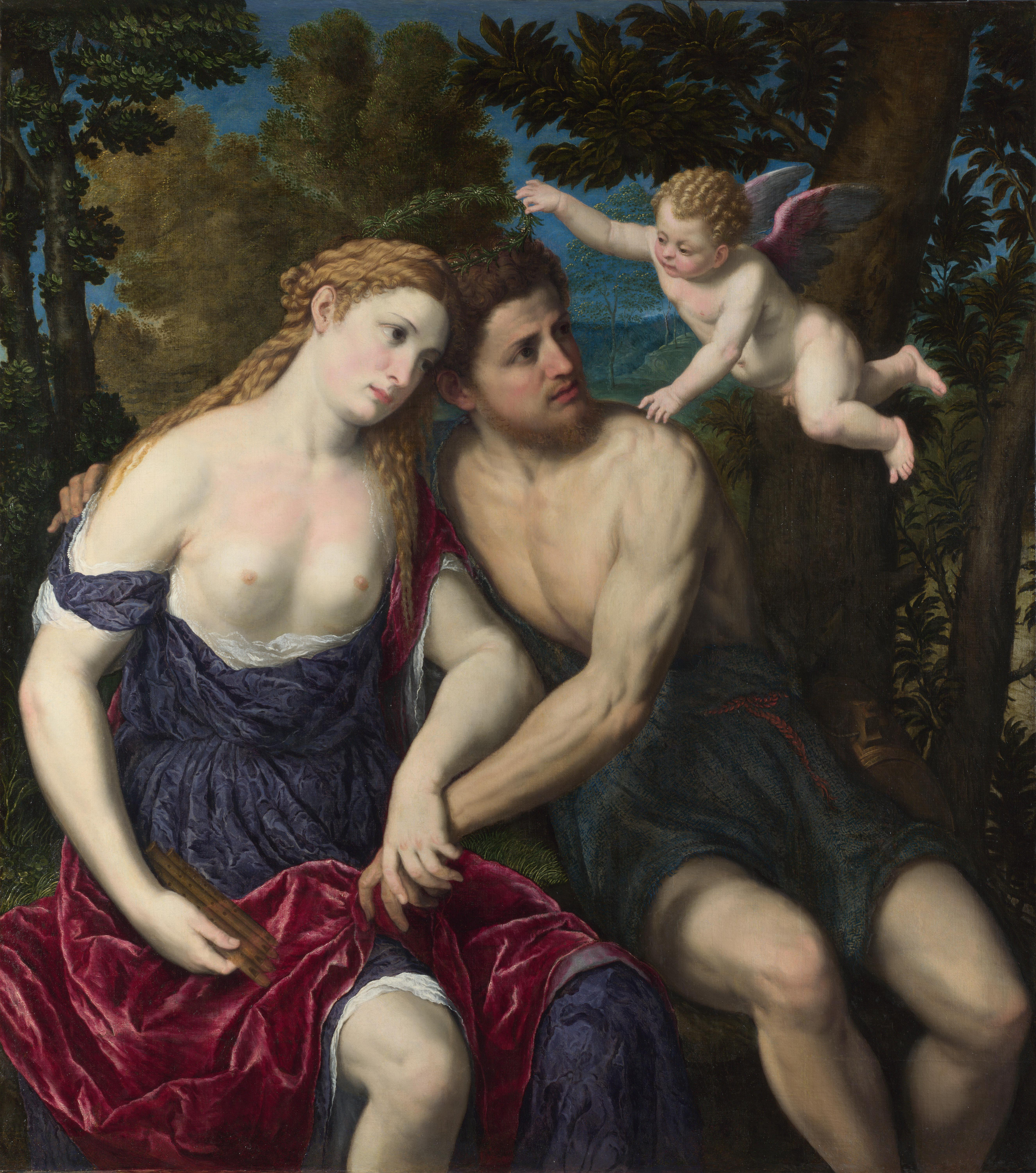 Pair of Lovers. National Gallery, London/ The painting has been entitled Daphnis and Chloe, presumably because the man's tentative advances suggest the problems which this pair of lovers had, as related in the Greek pastoral romance of that title by Longus, probably of the 3rd century AD. But many other subjects are possible.